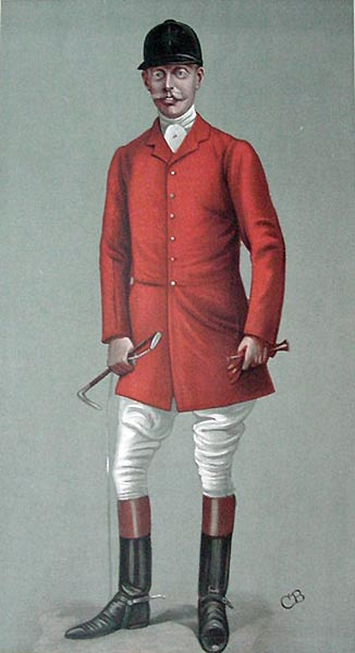 Caricature of James "Tommy" Burns-Hartopp, master of the Quorn Hunt. Caption read "Long Burns".